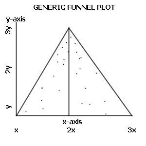 A description of a Funnel plot